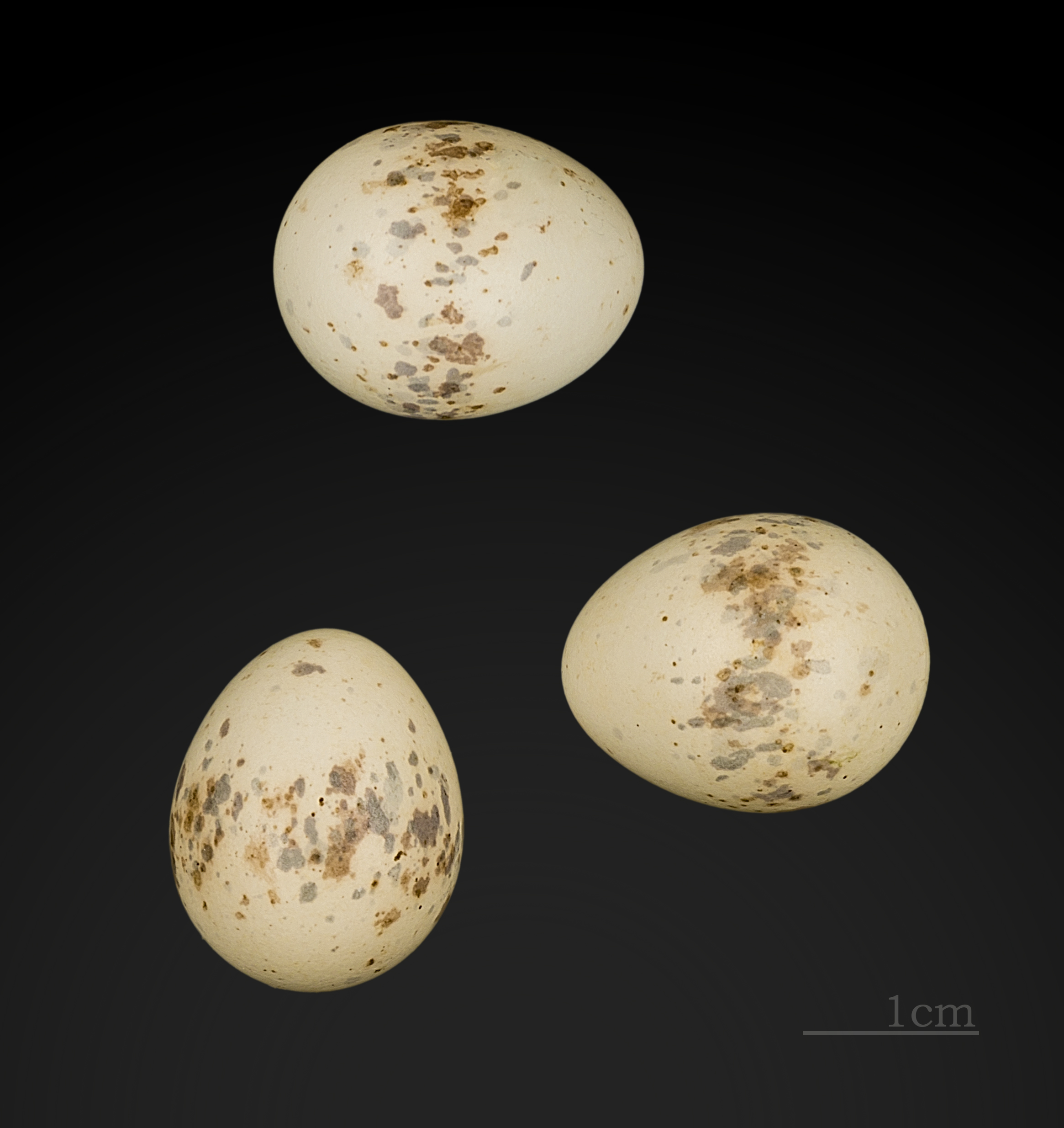 Egg of Masked Shrike. Collection of Jacques Perrin de Brichambaut.